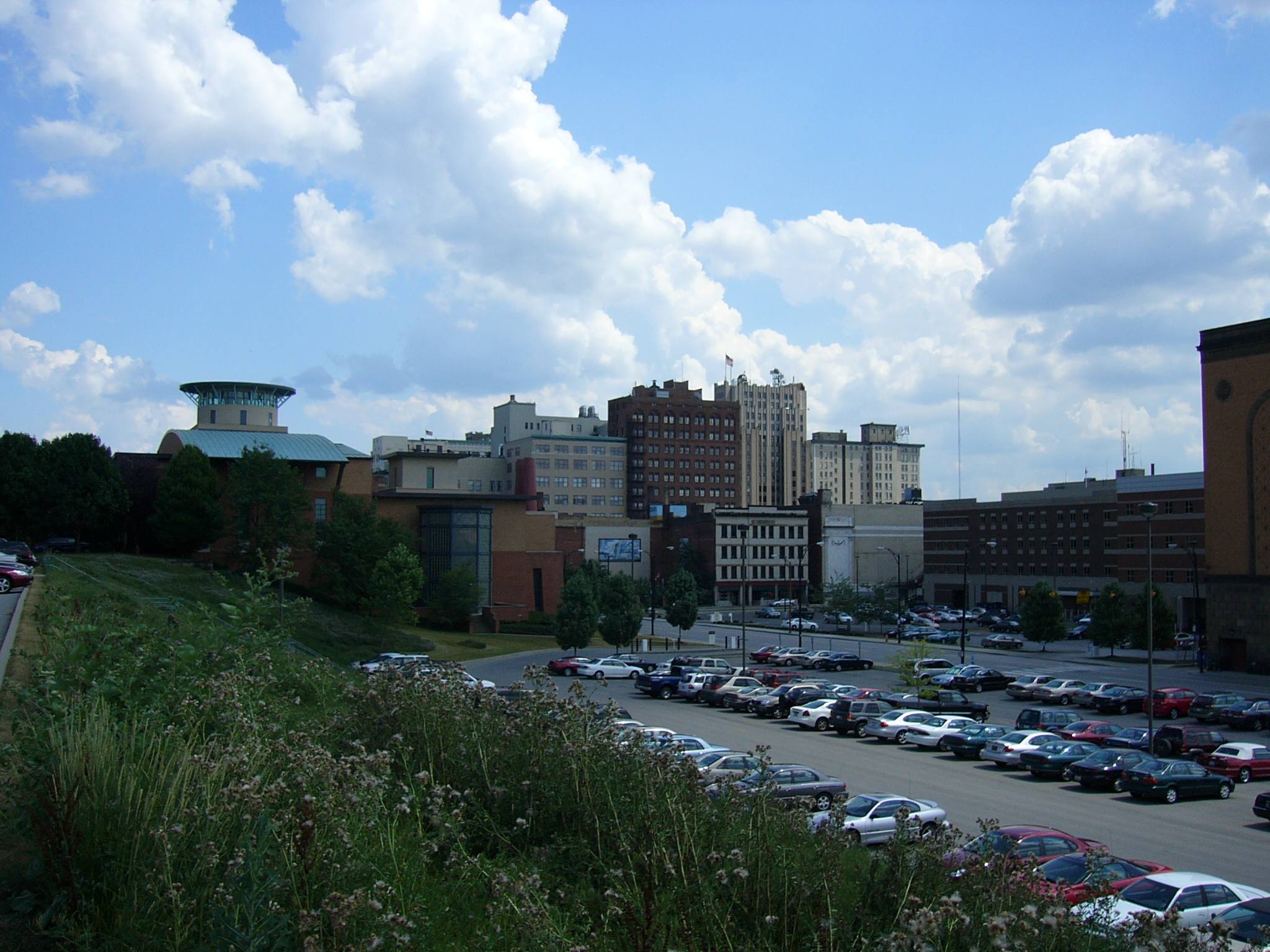 Skyline of Downtown Youngstown